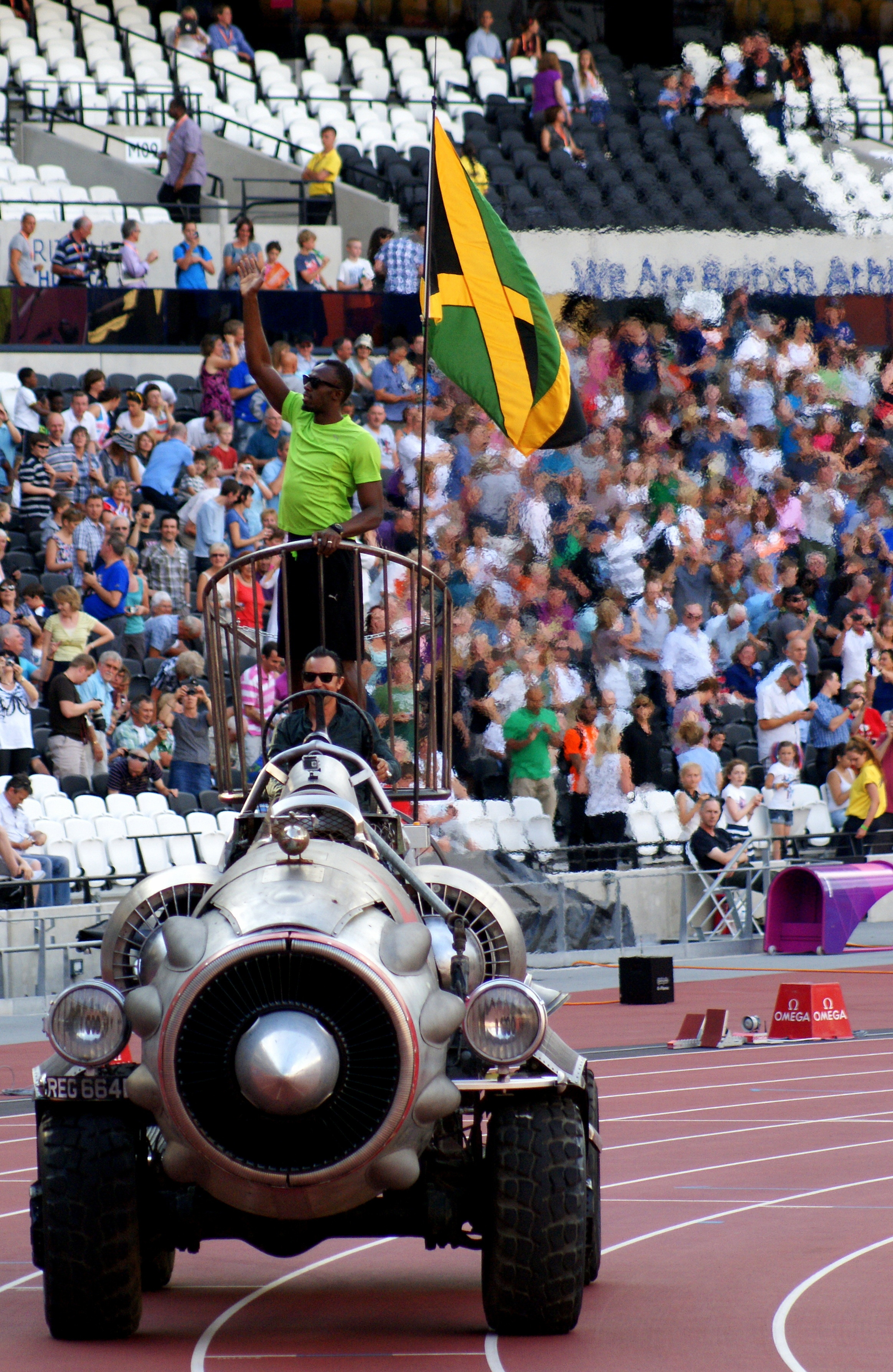 Usain Bolt - entrance into the stadium